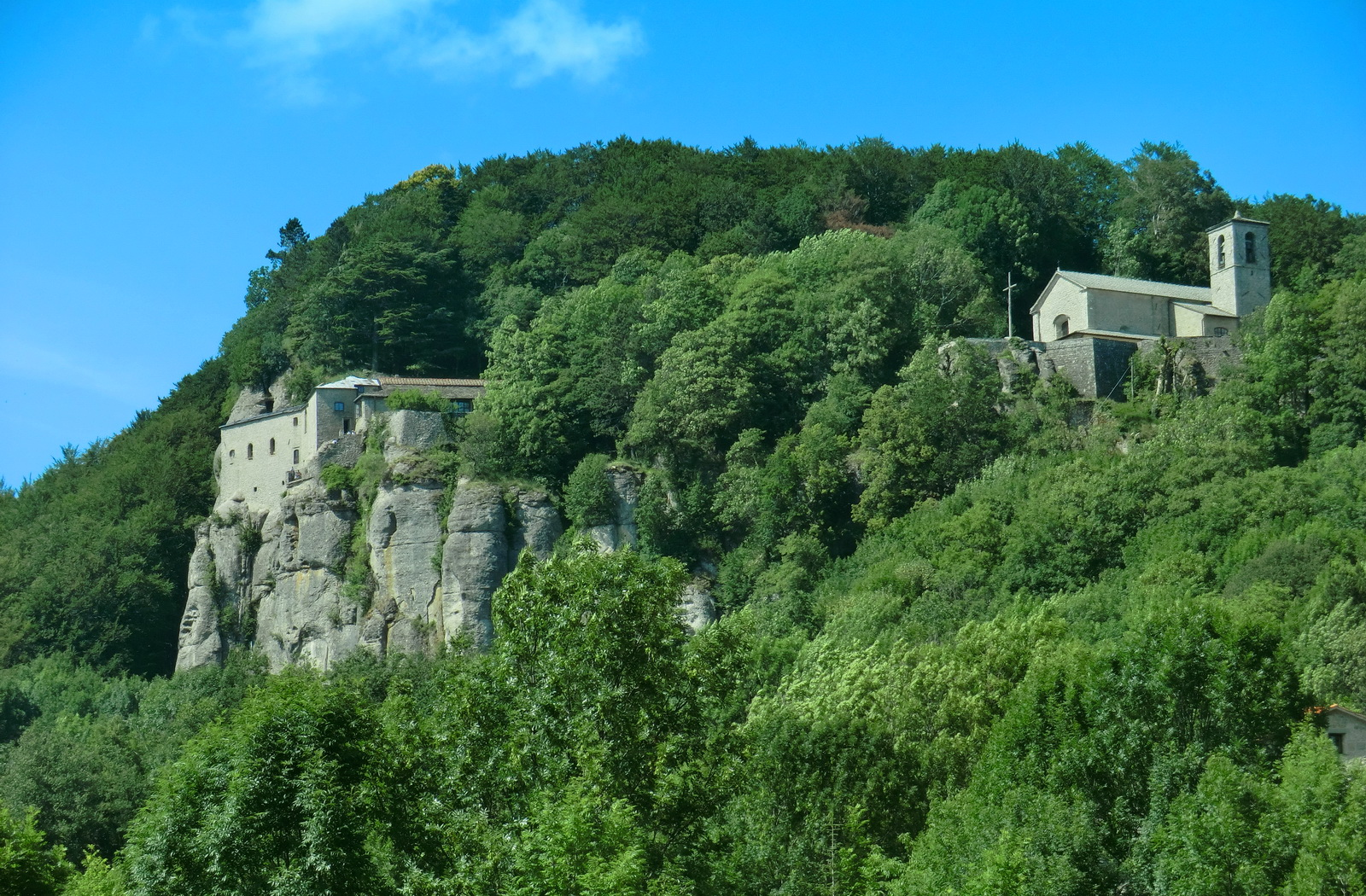 Santuary of Verna Native nameSantuario della VernaLocationChiusi della Verna, Tuscany, ItalyCoordinates43° 42′ 25.2″ N, 11° 55′ 51.6″ E Established1260 (Consecrated)